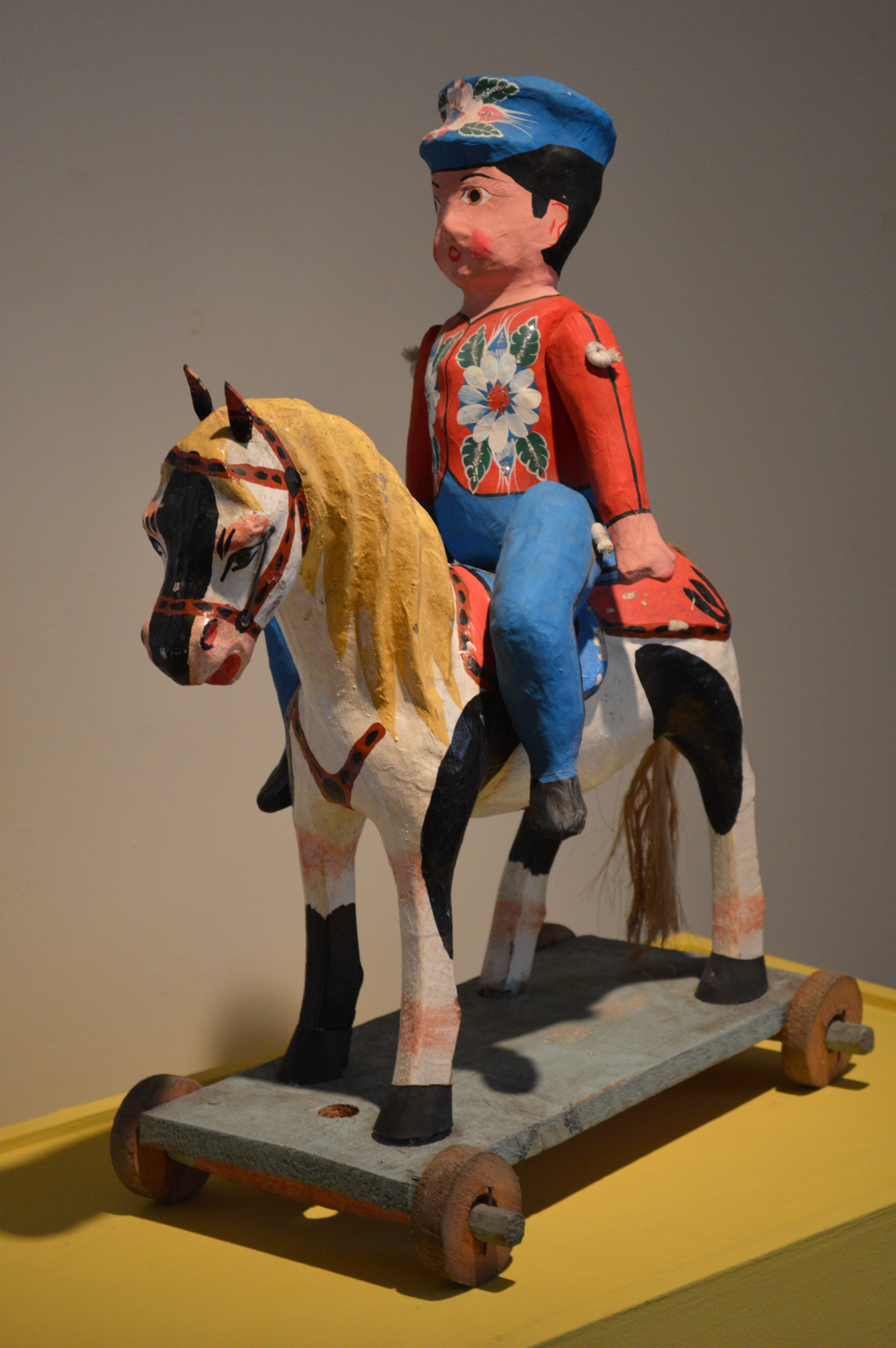 Cartoneria toy horse and rider from Celaya, Guanajuato at the Coleccionismo en el Arte Popular exhibit at the Railway Museum in San Luis Potosi